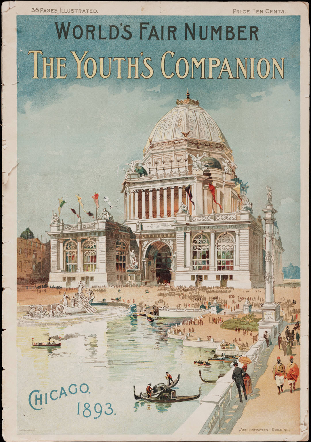 The Youths companion worlds fair extra number. Boston : Perry Mason & Co.,1893.